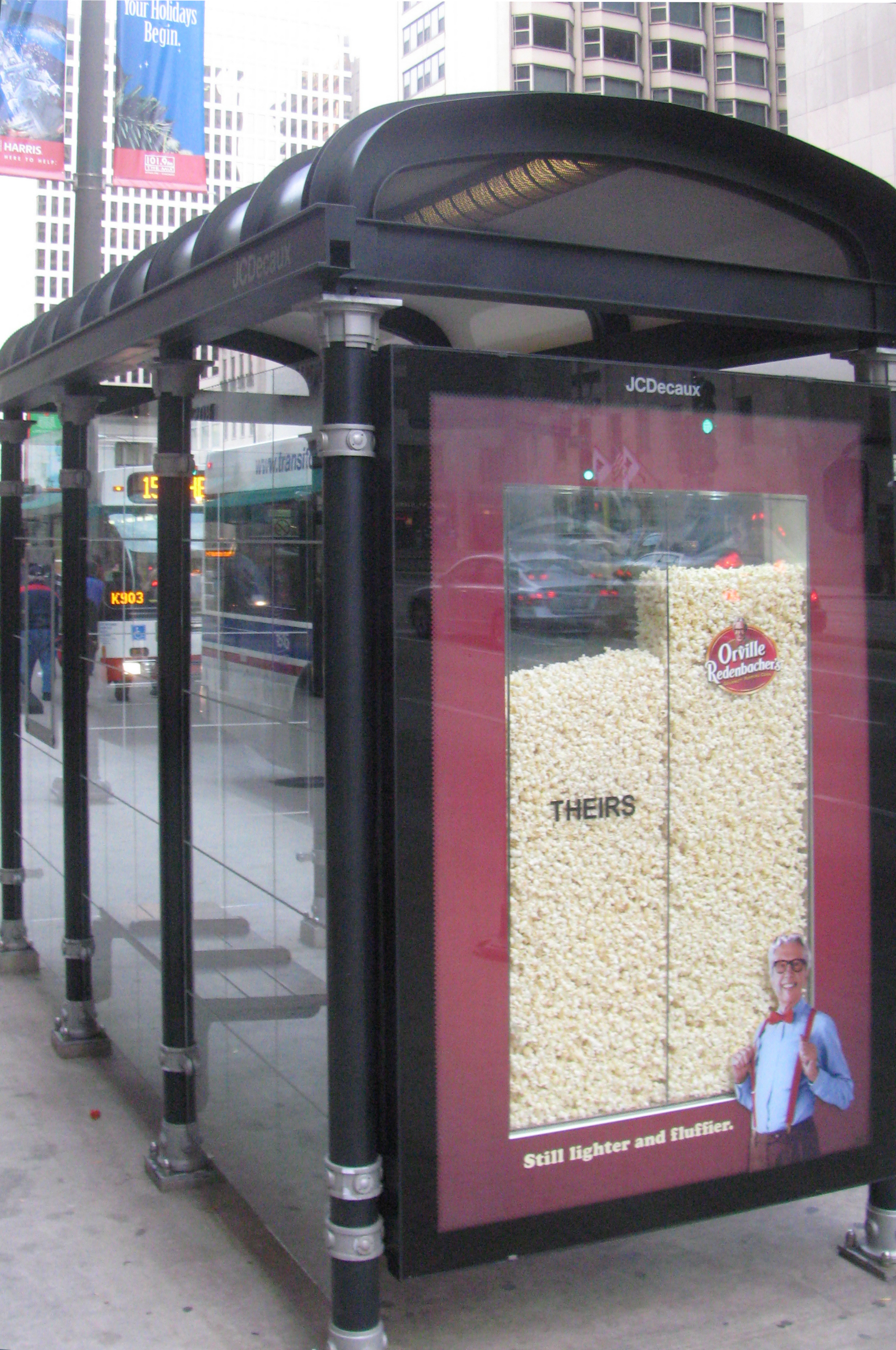 Chicago Transit Authority 3D Bus Stop on Michigan Avenue